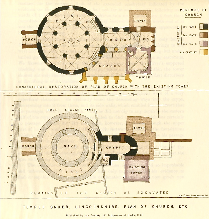 Plans of Temple Bruer Preceptory by Sir William St John Hope 1908